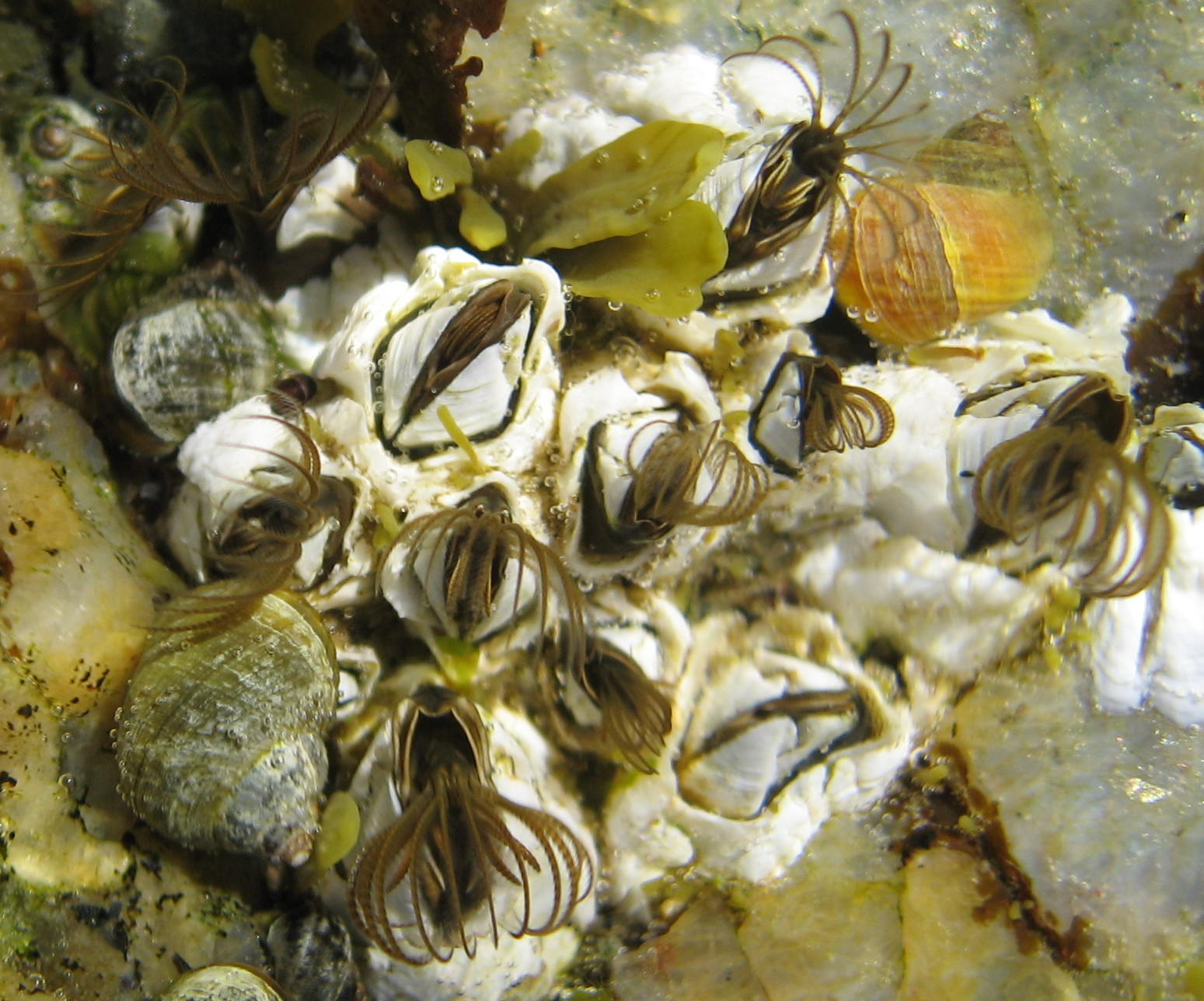 Barnacles (Semibalanus balanoides) at the waterline on some large rocks at the mole in Upernavik harbour, Greenland. The image is taken by placing the lens of the camera as close as possible to the water surface, thus the wavy distortions. Each individual has a diameter of approximately 10 mm. When submerged in water, the animal extends six limbs in the water and moves them rhythmically combing the water for food.